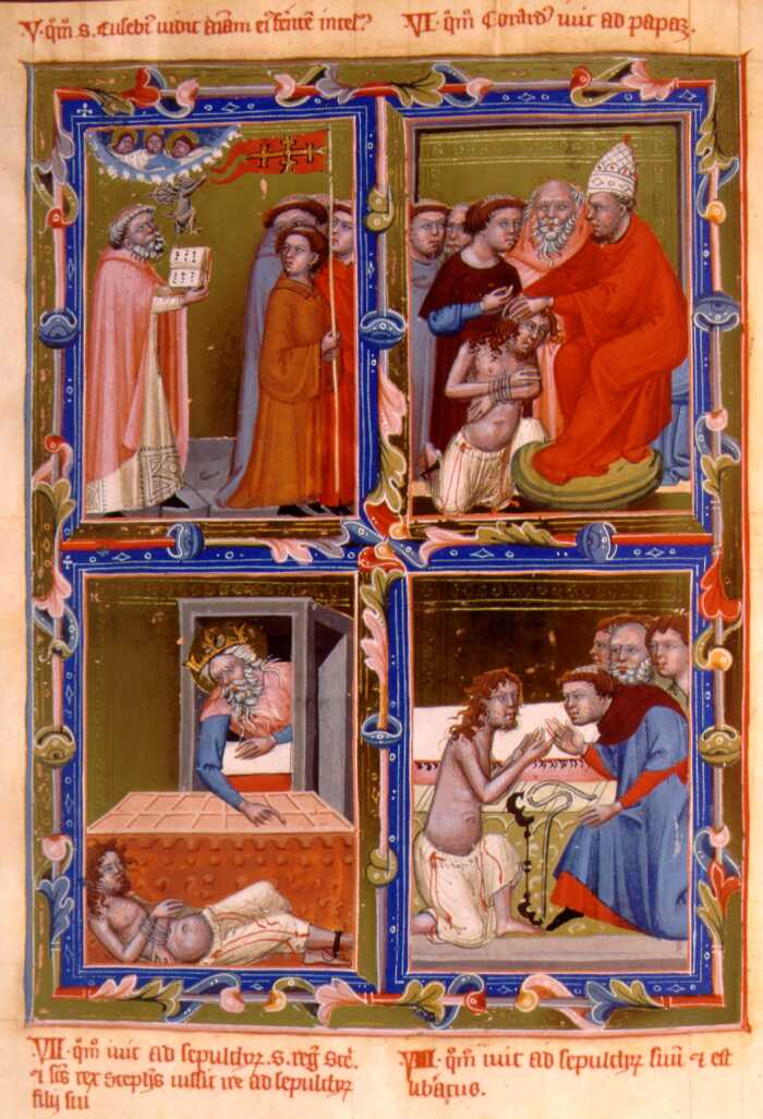 Anjou Legendarium